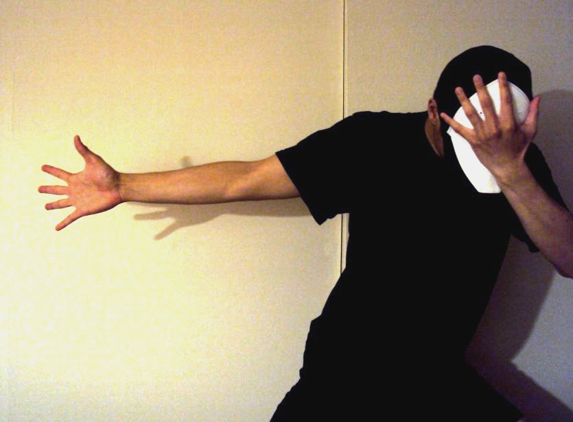 Jazz Hands for Jazz Dancers